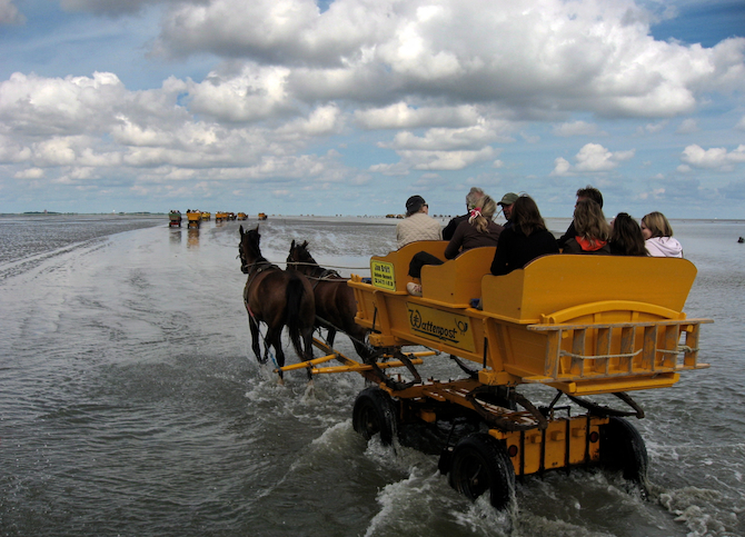 A typical mudflat carriage (Wattwagen) on the way to Neuwerk island, near Cuxhaven, Germany.